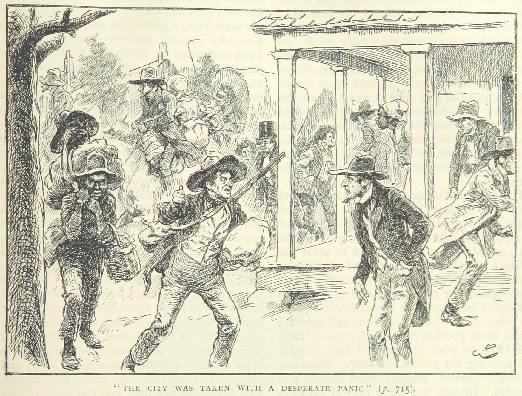 Panic in Louisville, Kentucky as the troops of John Hunt Morgan near the city.